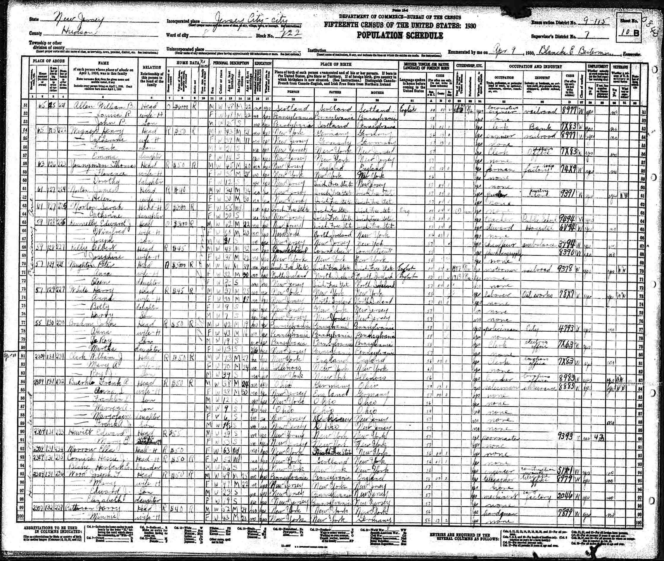 1930 US Census, New Jersey: Enumeration District 115, Sheet 10B, Line 61-64, Image 20/55 61 Clendenny Avenue, Jersey City, Hudson County, New Jersey, USA Contents 1 Household 2 Household Interpreted 3 Source 4 Licensing 5 Original upload log Household Sarah Norton, head, age 55 Catherine Norton, daughter, age 30 [sic] James Norton, head, age 34, m. age 34, jeweler Helen Norton, wife, age 30, m. age 30 Household Interpreted Sarah Jane Carr Katherine Mary Norton James Joseph Norton I Helen Marie Maher Source US Census, New Jersey, 1930